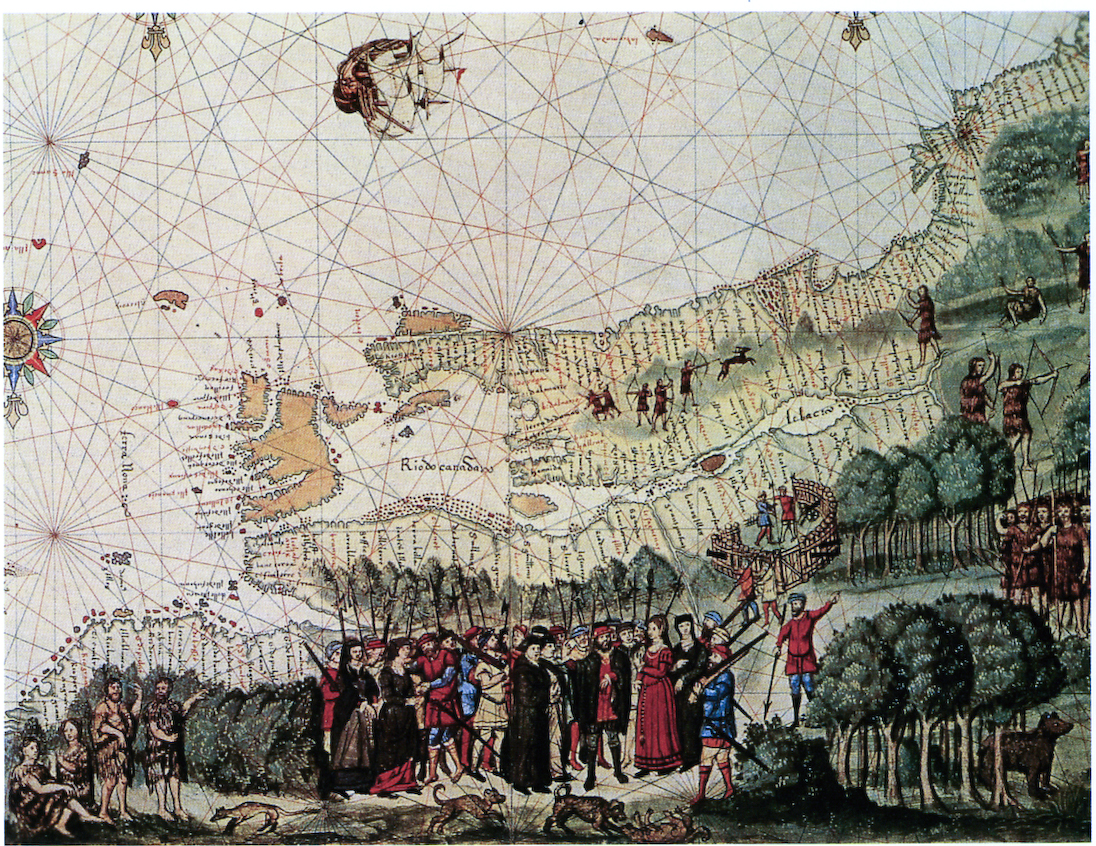 One of the maps from the atlas of Nicolas Vallard. It shows the eastern part of North America. Note : in this reproduction, north points to the bottom.